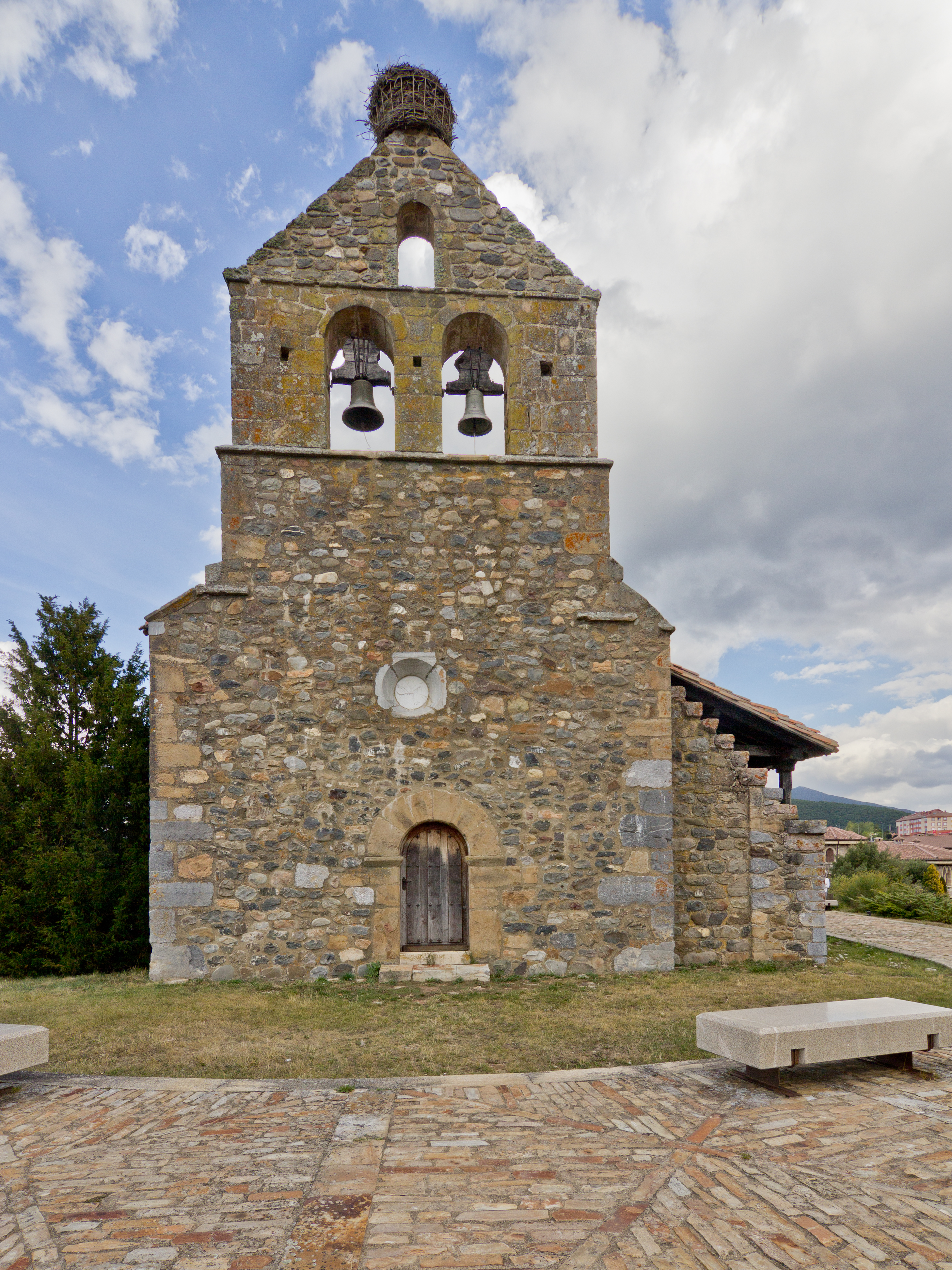 Church of Our Lady of the Rosary, Riaño, León, Castile and León, Spain.